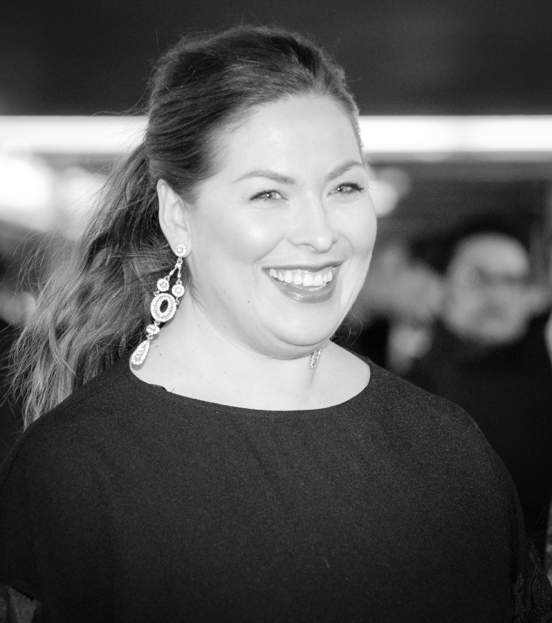 A guest (Cecilie Brein-Karlsen, Finansdepartementet) at Governor Øystein Olsen's annual address in February 2018